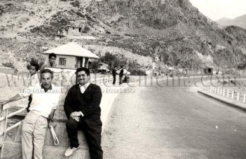 Samuel Khachikian - 1968